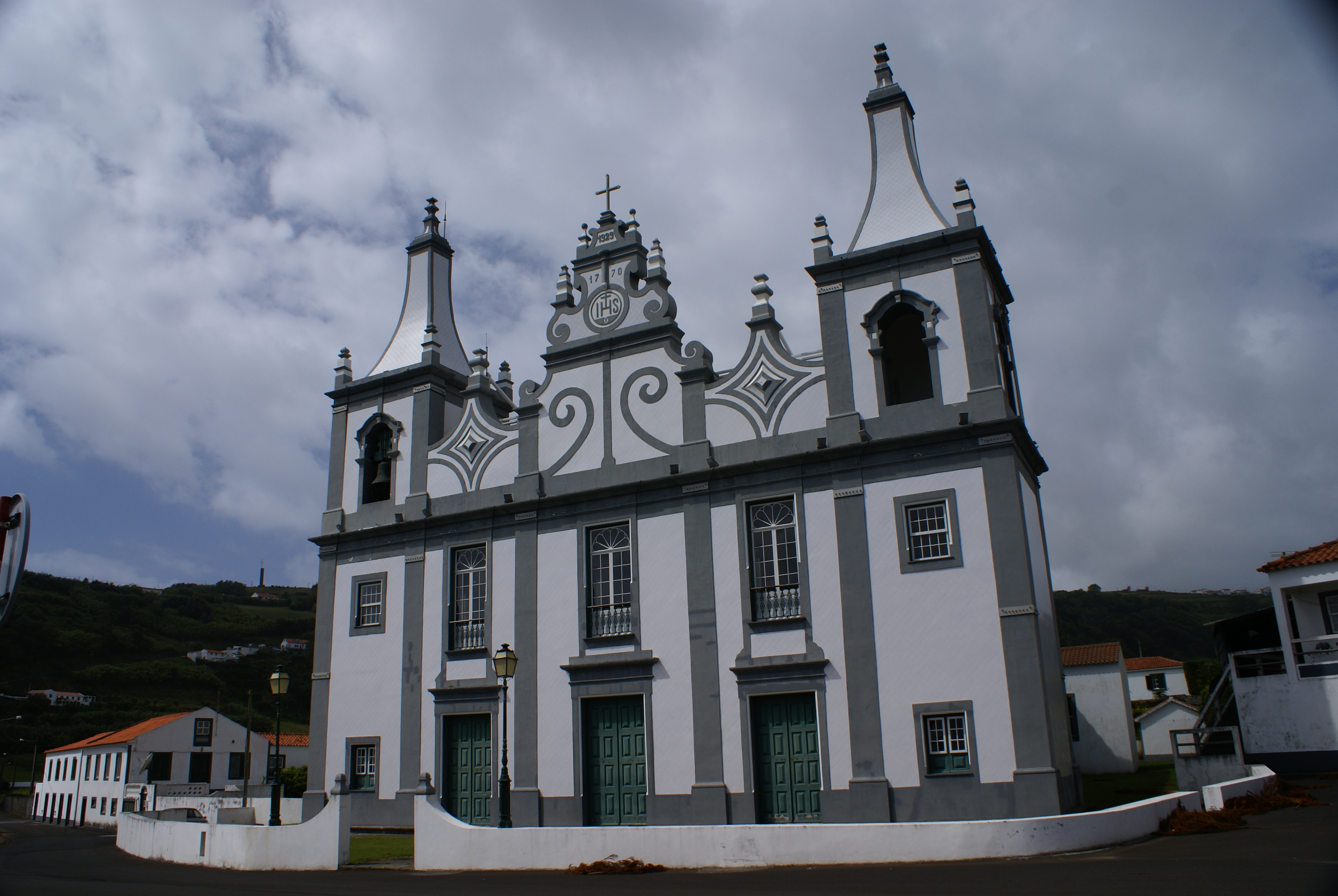 Igreja de Nossa Senhora da Graça, faxada, Praia do Almoxarife, Concelho da Horta, ilha do Faial, Açores, Portugal